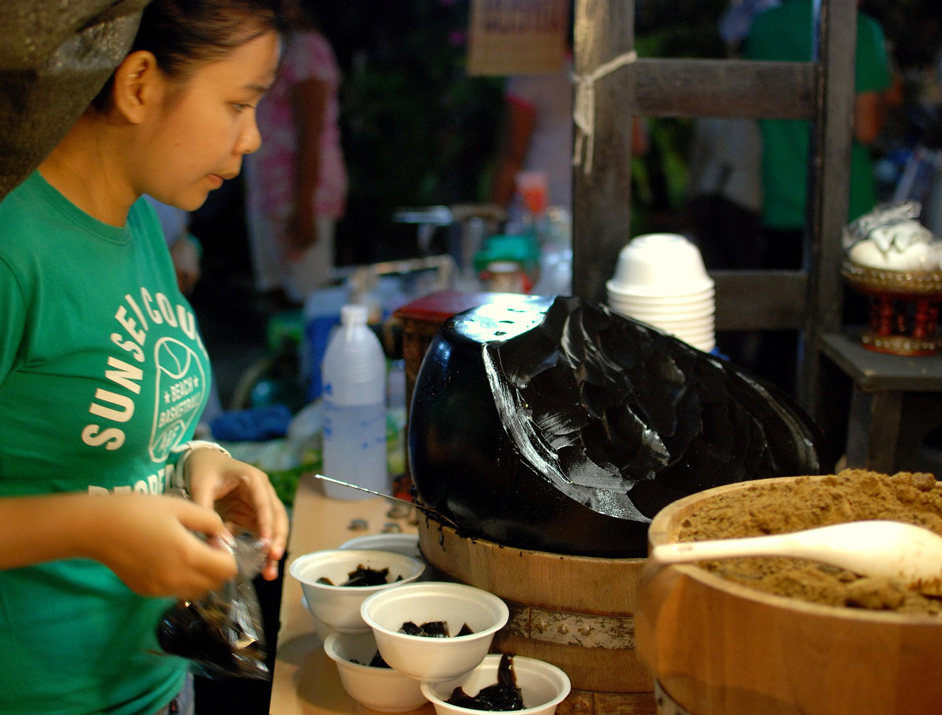 Chao kuai (Thai: เฉาก๊วย, grass cake) is a jelly which is made by boiling the aged and slightly oxidized stalks and leaves of Mesona chinensis, a type of mint, with potassium carbonate for several hours with a little starch and then cooling the liquid to a jelly-like consistency. Originally a Chinese dish, in Thailand it is normally eaten with ice and natural brown sugar. This photo was made at the Sunday Evening Walking Street market of Chiang Mai, Thailand.